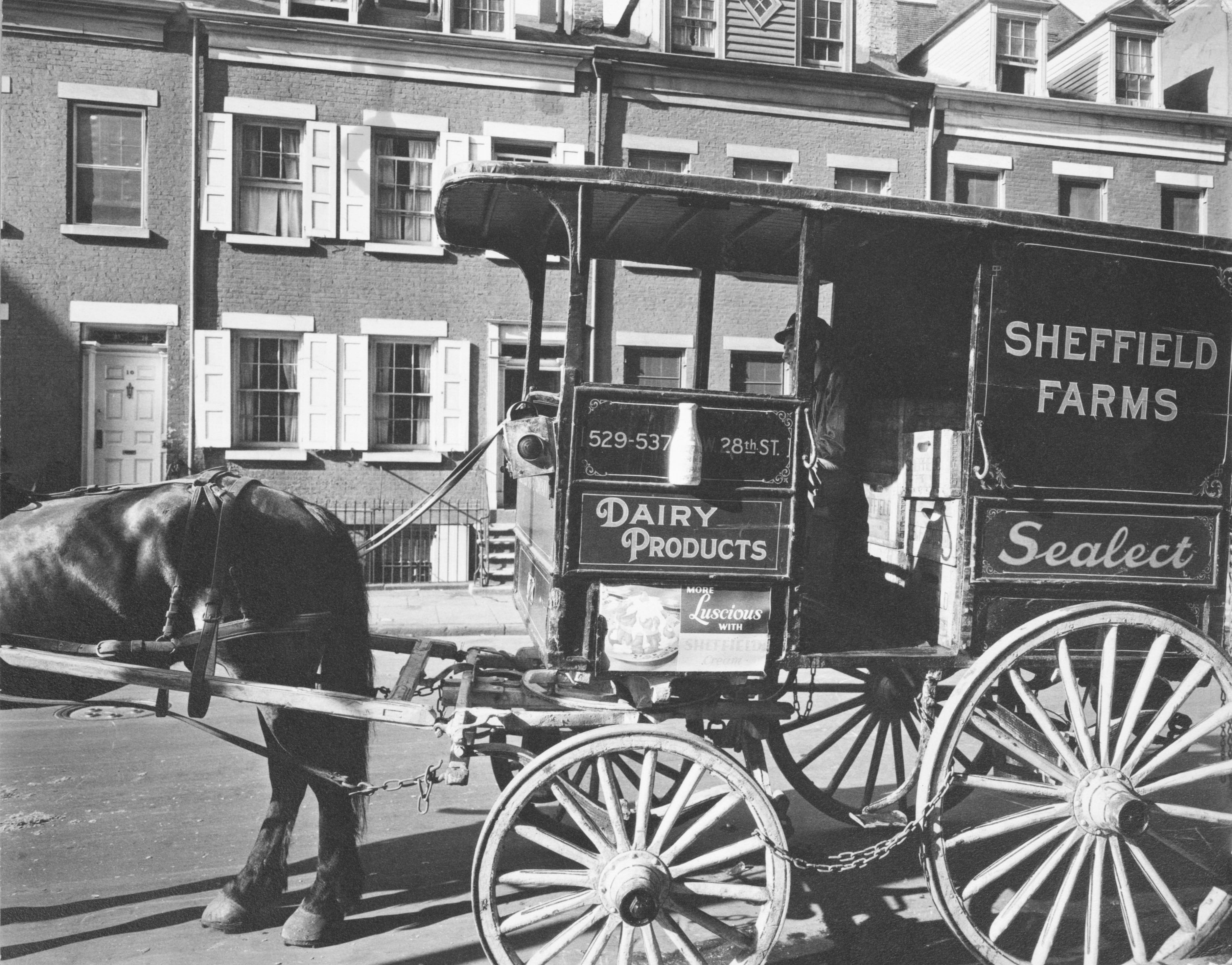 Sheffield Farms milk wagon on Grove Street, Greenwich Village, New York City. Taken for the United States Government's Federal Arts Project, part of the Works Progress Administration.